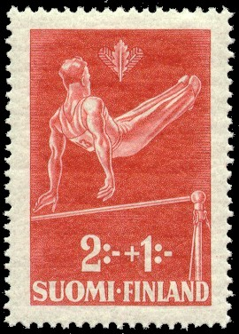 Finnish javelin gymnast Ale Saarvala in 1945